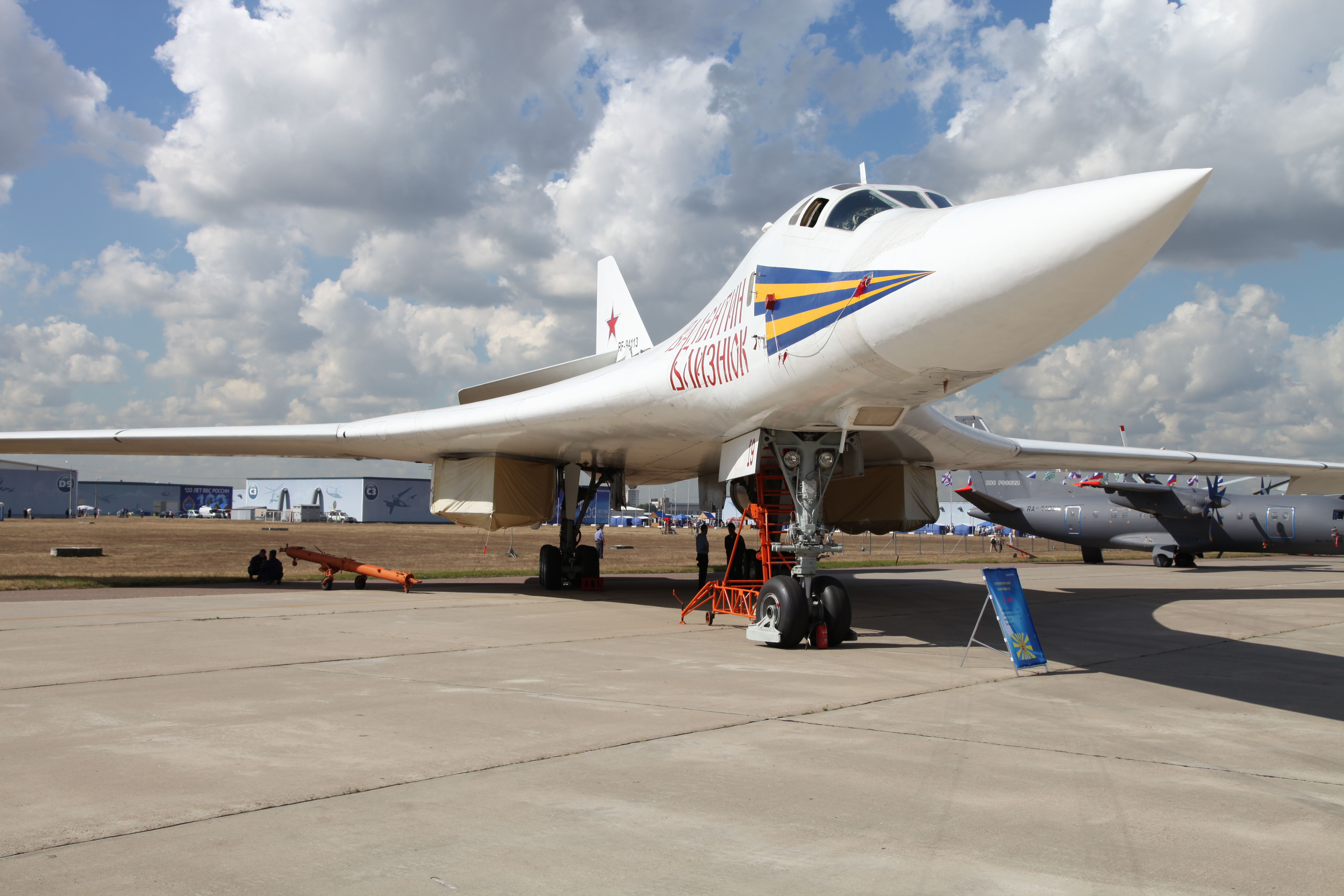 Aircraft at the Celebration of the 100th anniversary of Russian Air Force.